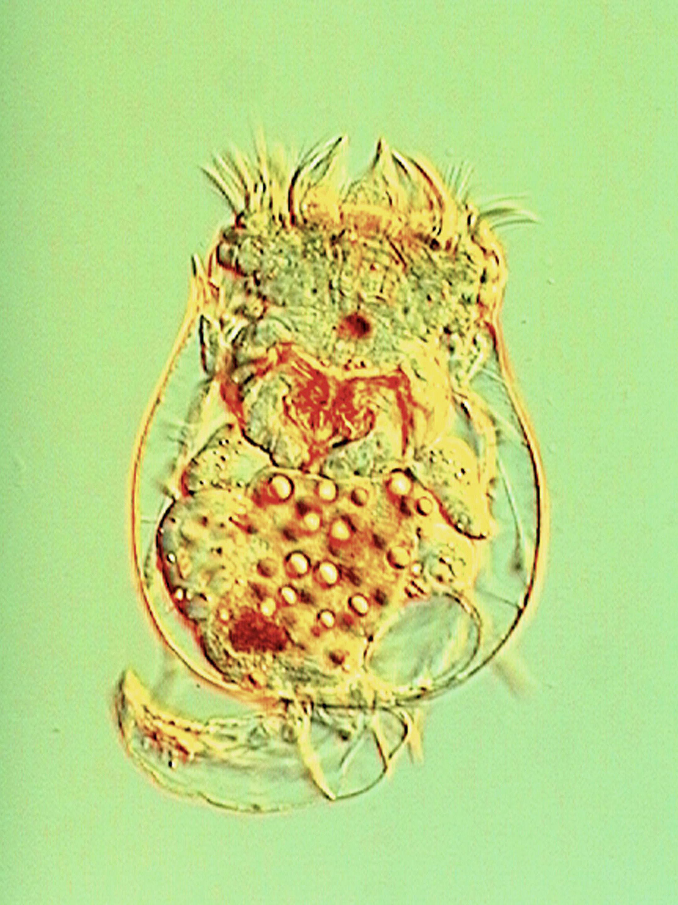 The rotifer Brachionus calyciflorus shown under Nomarski illumination